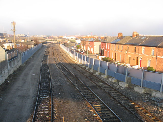 View from railway bridge, East Road, Dublin The lines lead from North Wall freight yard (behind).